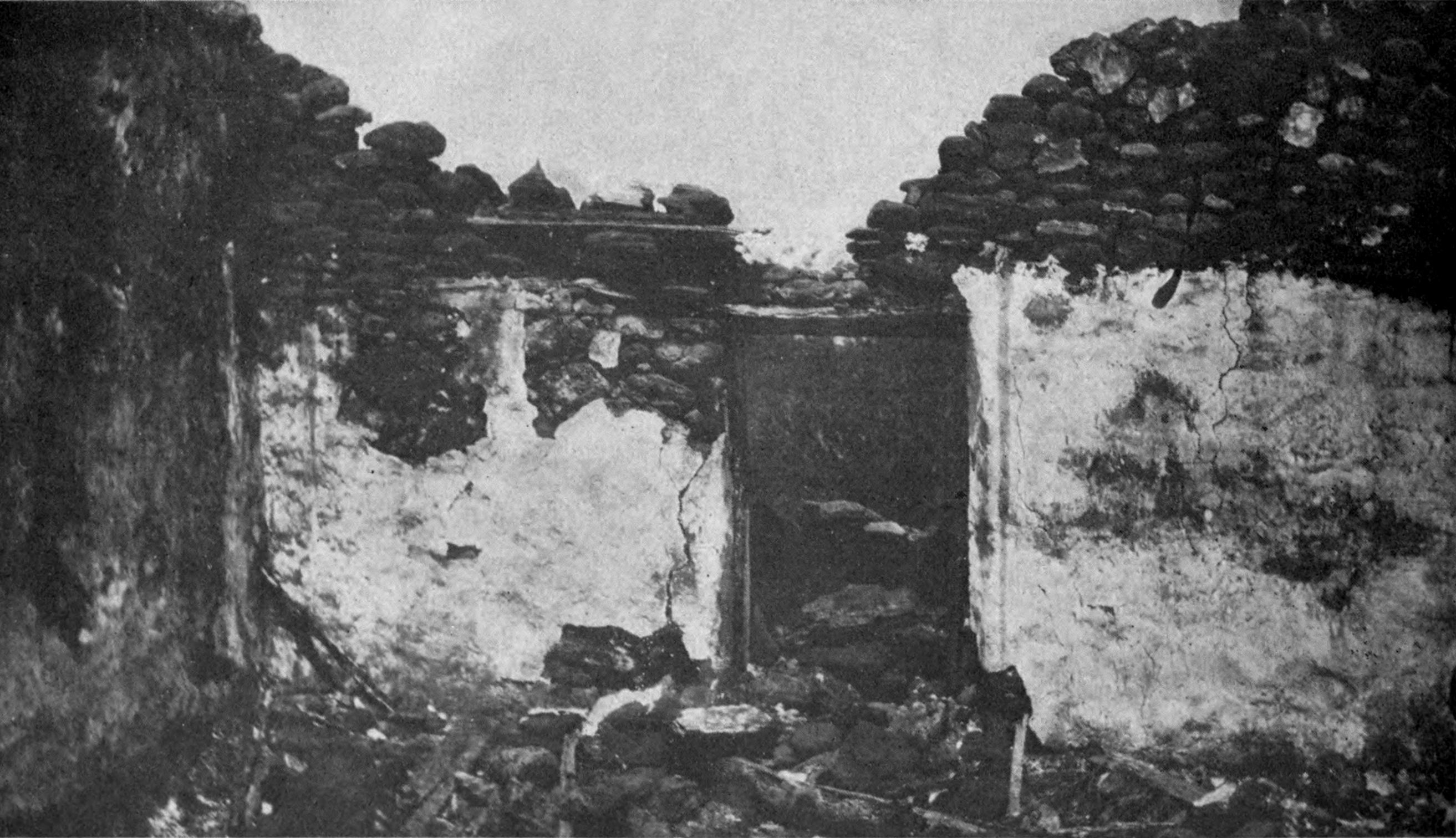 Ruins of John Young's house at Kawaihae, Hawaii. The John Young Homestead is the oldest known Western-style house in all of the Hawaiian Islands. The house, which probably dates from the late 1790′s or early 1800′s, was used by John Young until his death at the age of 93.